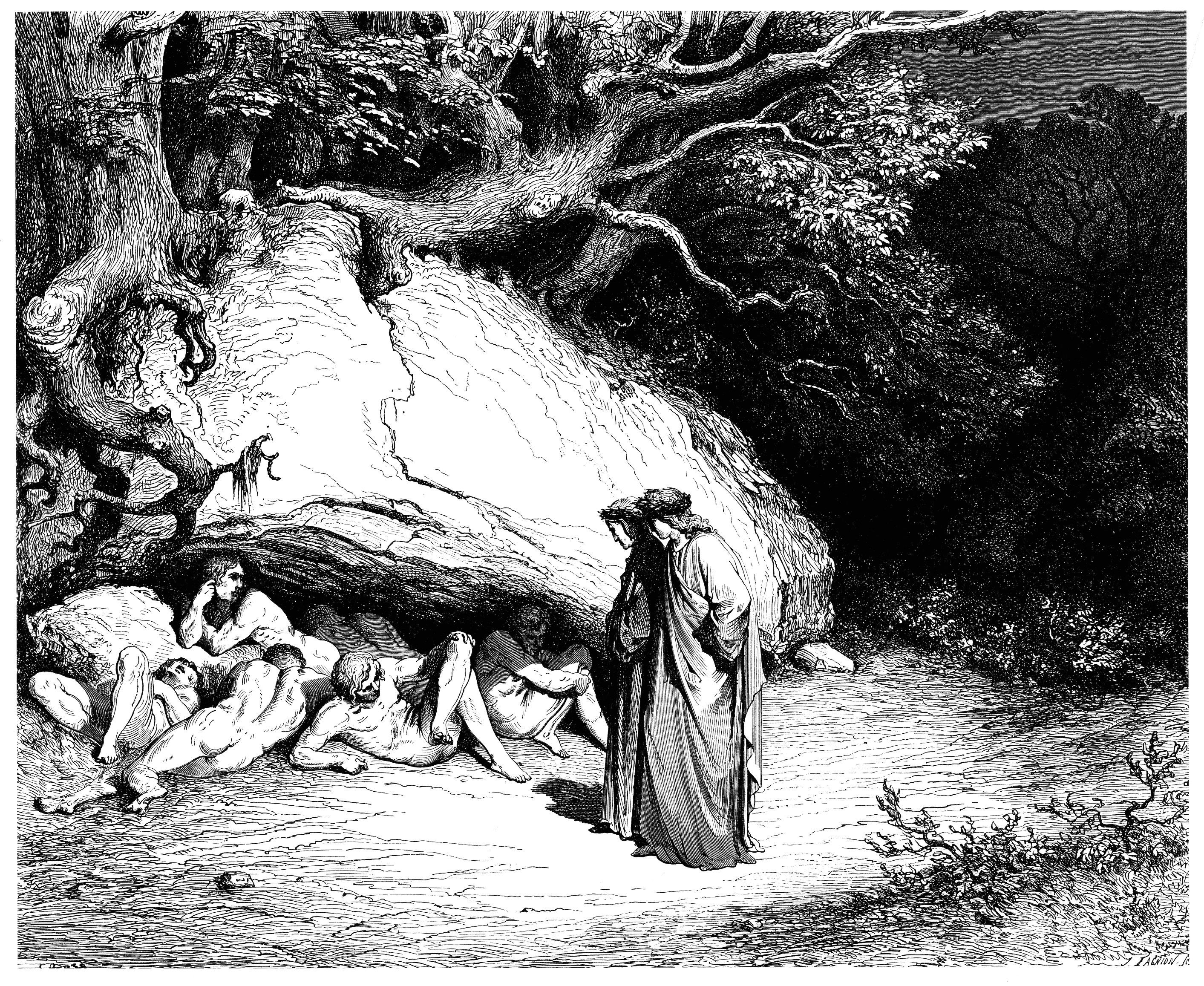 Gustave Doré's illustration to Dante's Inferno. Plate XI: Canto IV: The Virtuous pagans: "Lost are we and only so far punished, / That without hope we live on in desire." (Longfellow's translation). Put more simply, they are punished only by being separated from God's love.